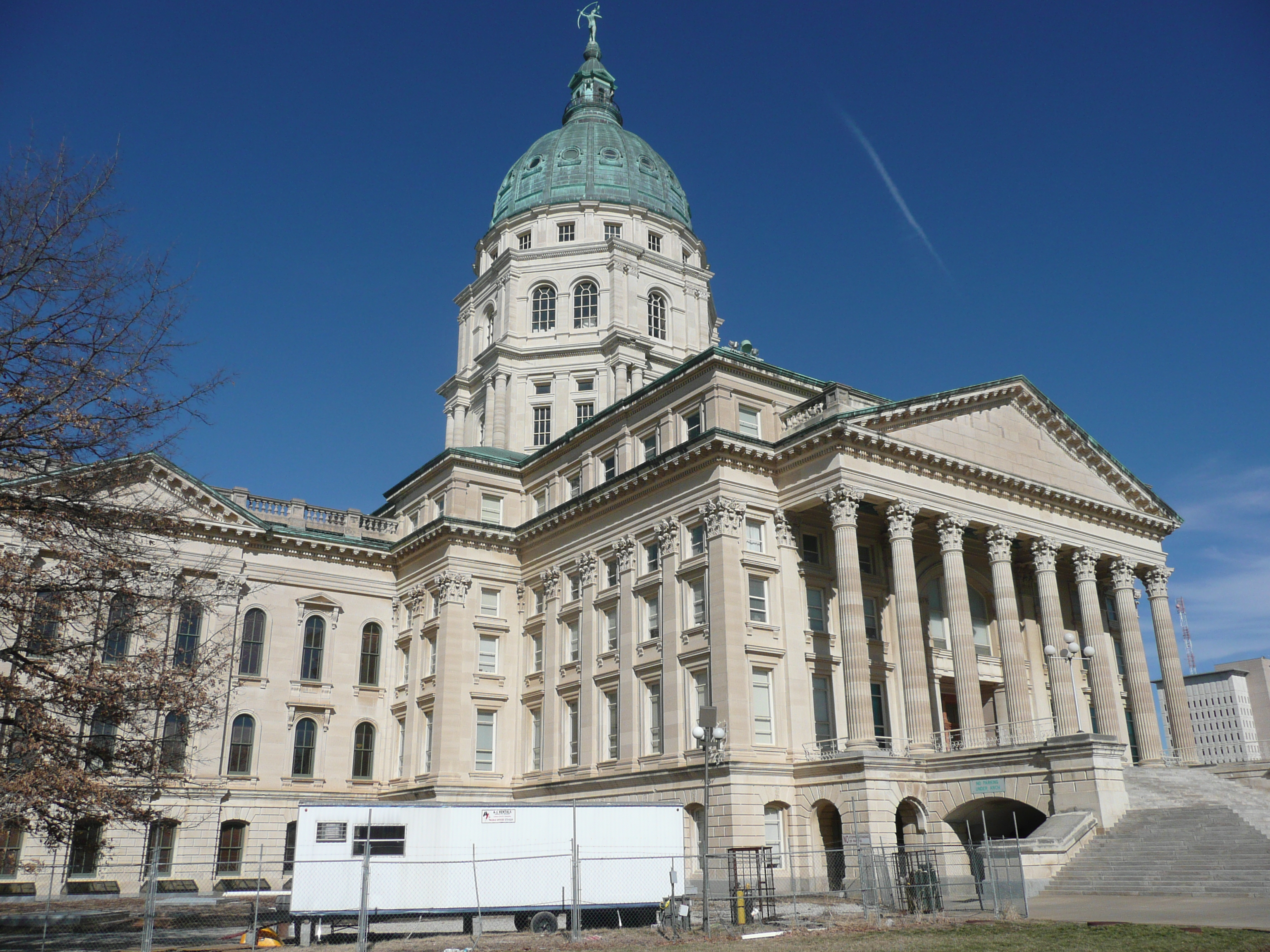 The State Capitol building of Topeka, Kansas. Taken with a Panasonic DMC-TZ3.